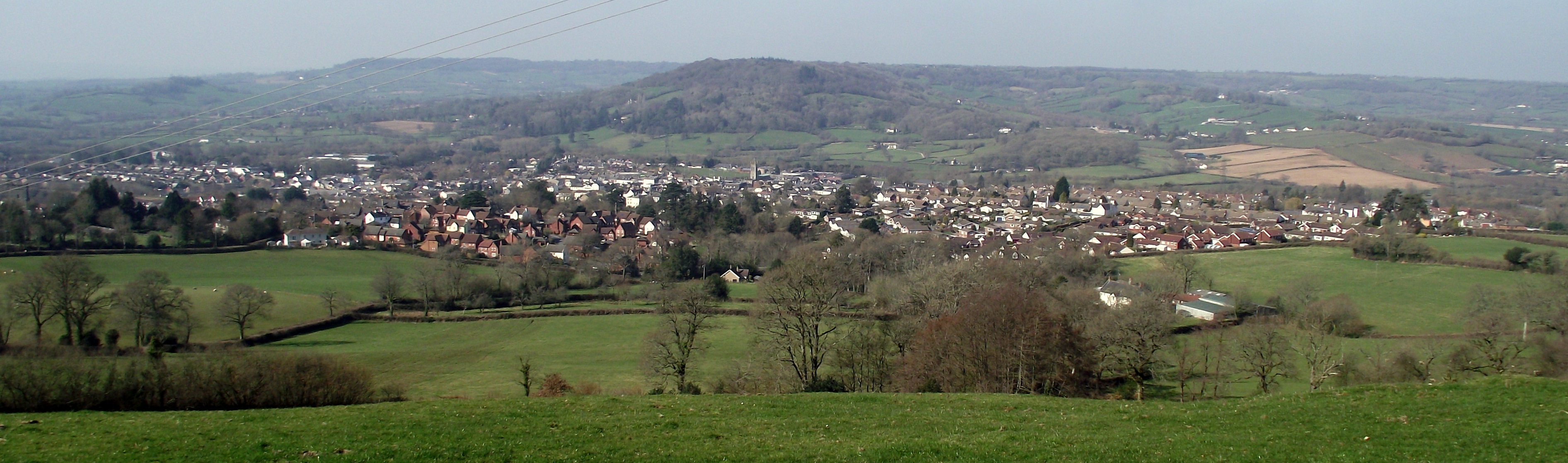 Photo of a part of Honiton town from the south.